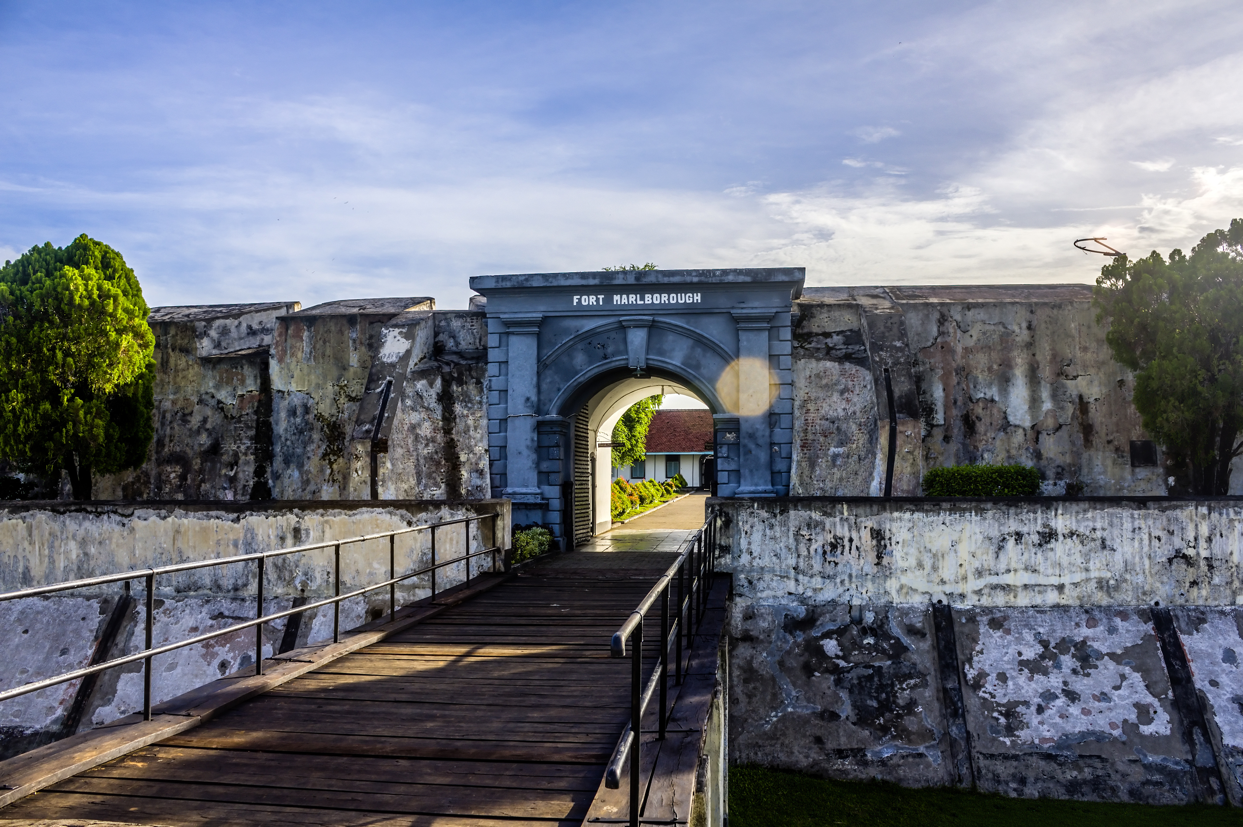 Front gate of Fort Marlborough, Bengkulu 2015-04-19